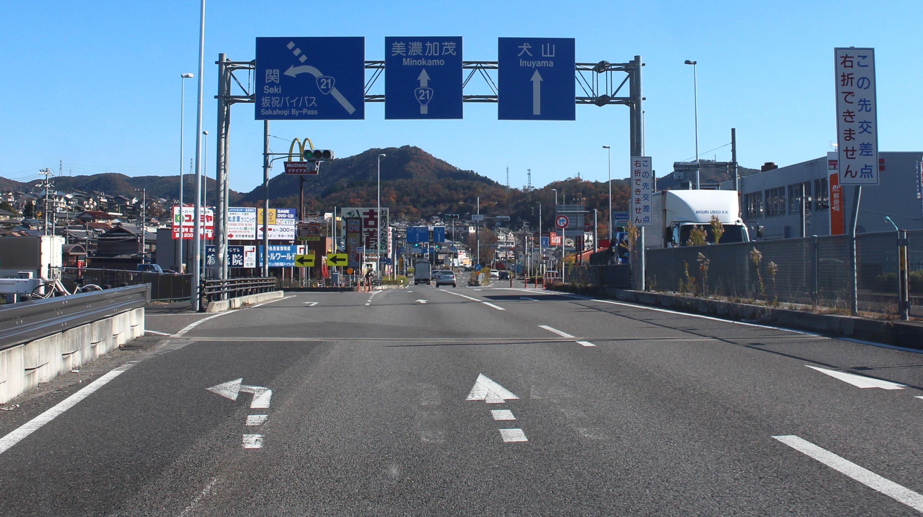 Route 21 and Gifu Prefectural Road Route 207 in Ubumahigashimachi, Kakamigahara, Gifu Prefecture, Japan. Canon EOS Kiss X7i